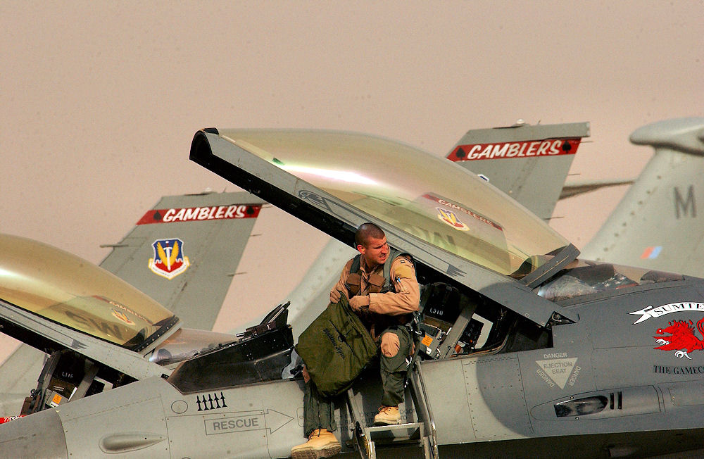 Capt. Matt Ayres, an F-16 Fighting Falcon pilot assigned to the 363rd Air Expeditionary Wing, prepares for takeoff before a mission from a forward-deployed location in Southwest Asia on March 27. Ayres is deployed from the 77th Fighter Squadron, Shaw Air Force Base, S.C. Aircraft move around the clock to support Operation Iraqi Freedom. (U.S. Air Force photo by Staff Sgt. Matthew Hannen)